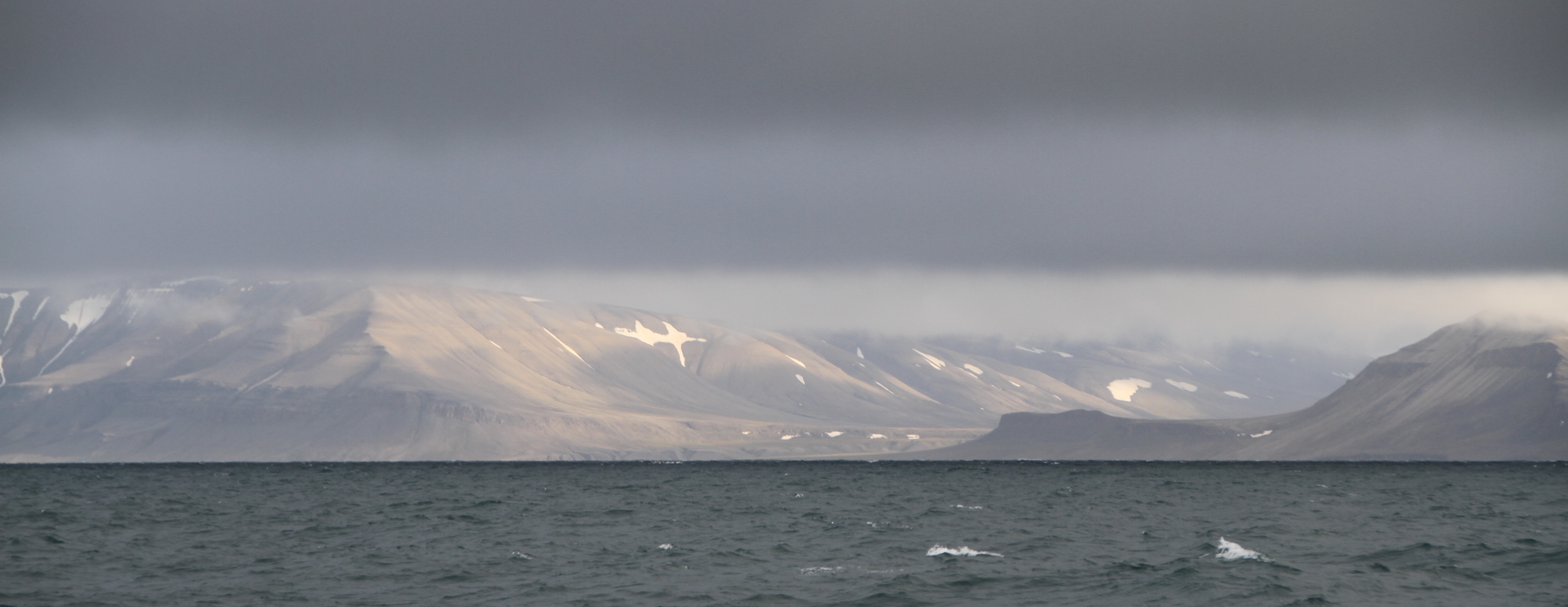 The Sannenfjorden and Tempelfjorden area of nprthern Nordenskiöld Land, seen from the intersection in Billefjorden - SvValbard.